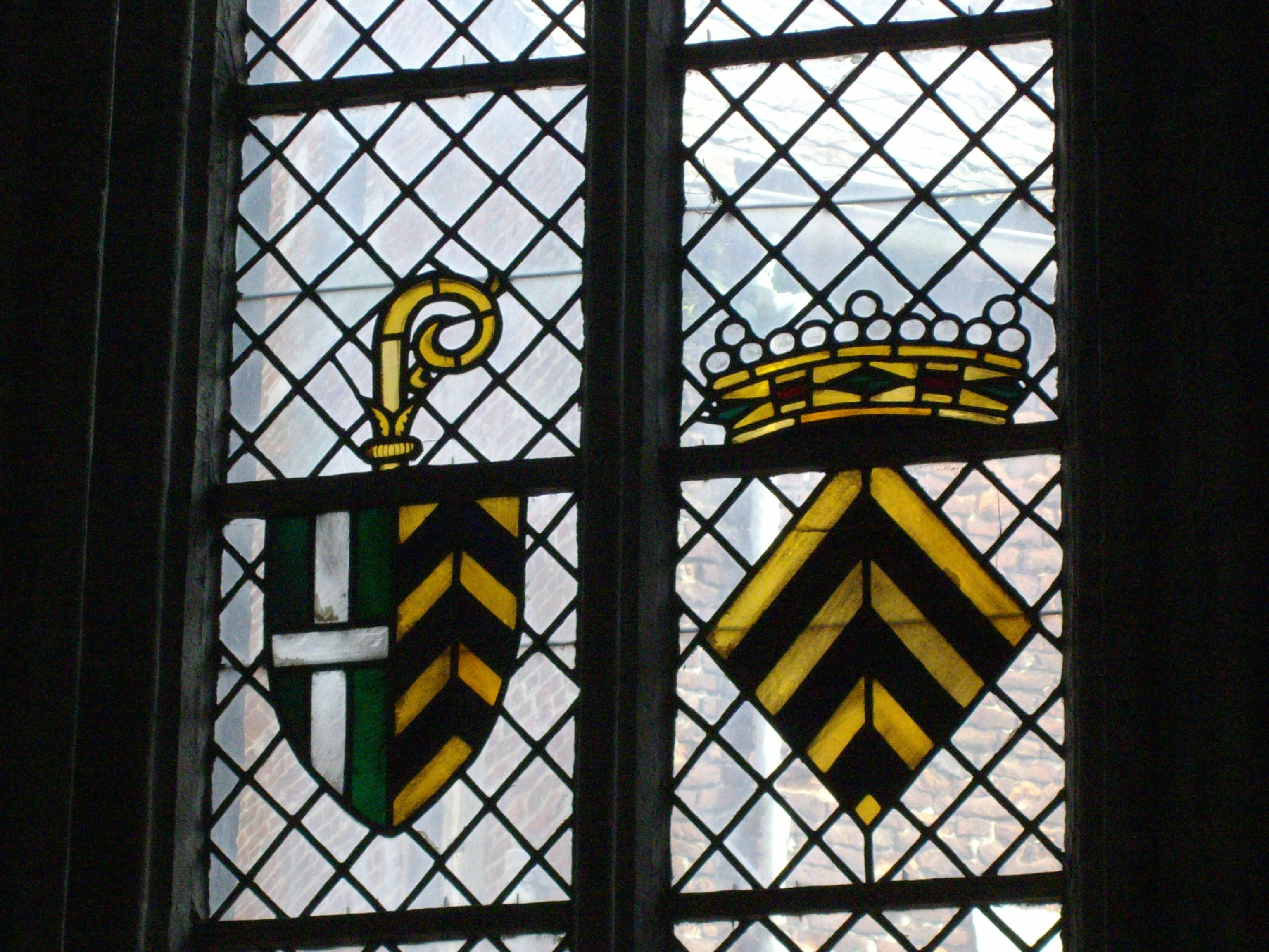 the Saint-Vincent collegiate church in Soignies (Belgium)